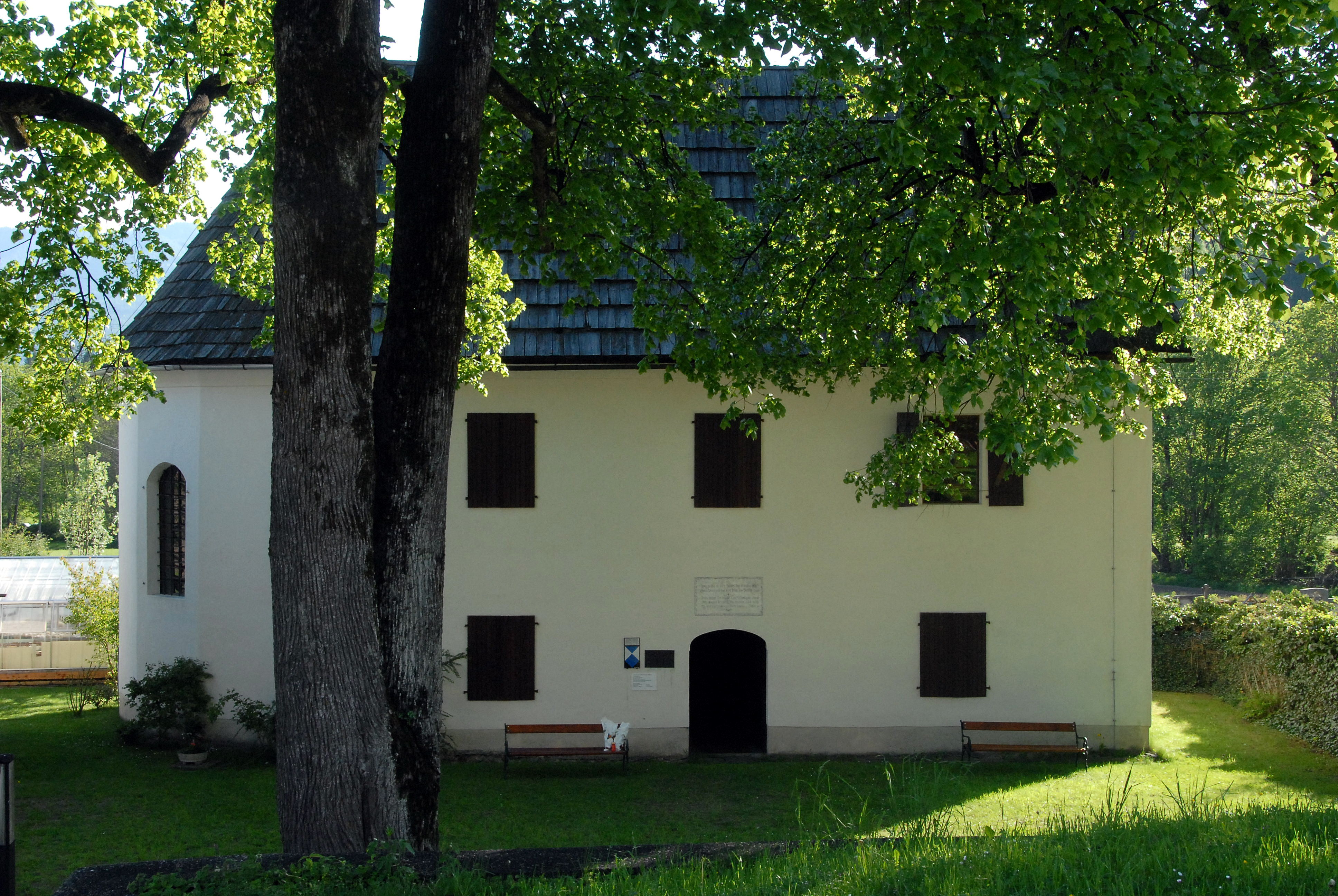 Diocese museum (formerly Lutheran tolerance meeting house) in Fresach, municipality Fresach, district Villach Land, Carinthia, Austria, EU